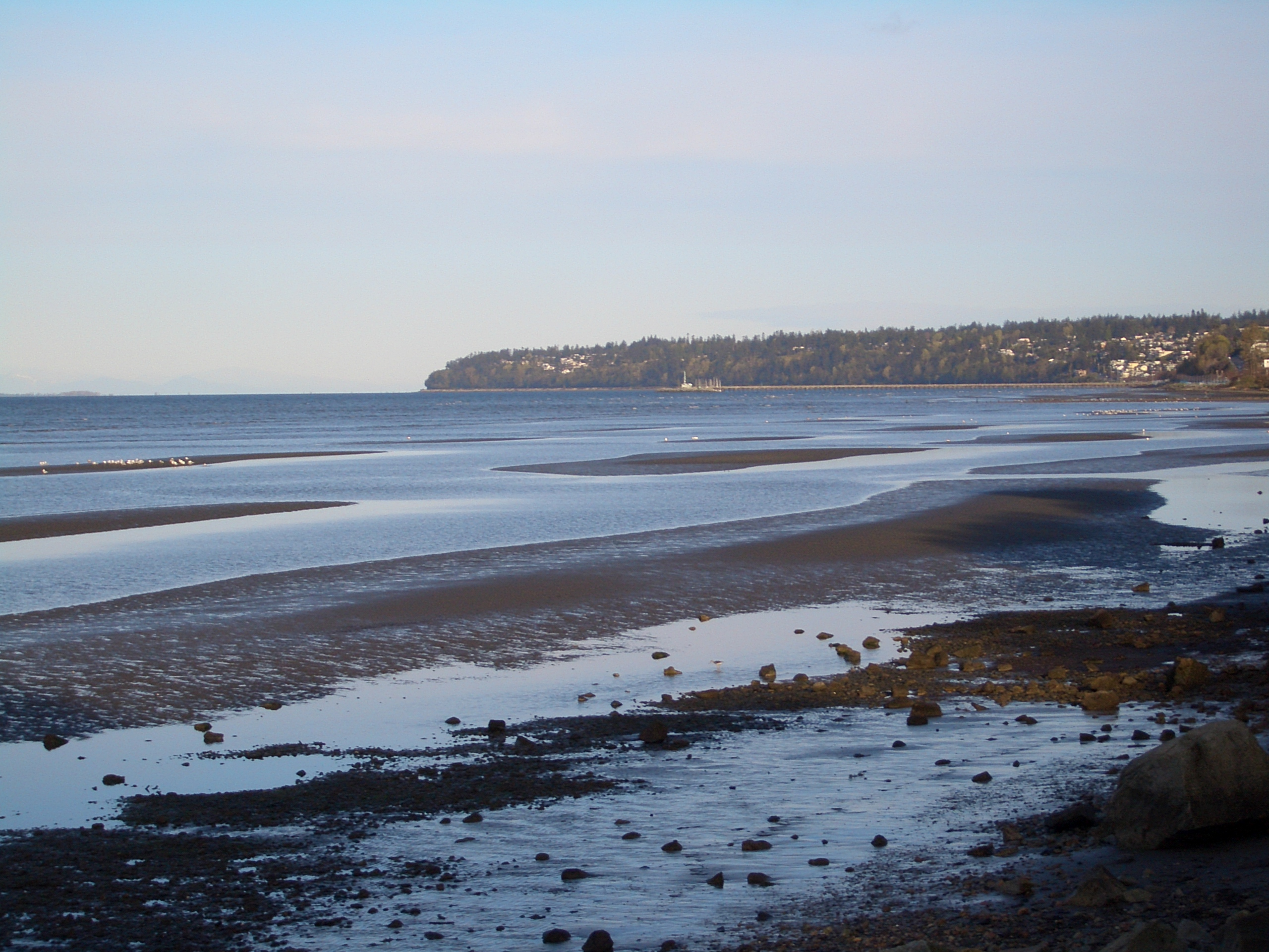 Semiahmoo Bay south of White Rock. White Rock pier can be seen in the background